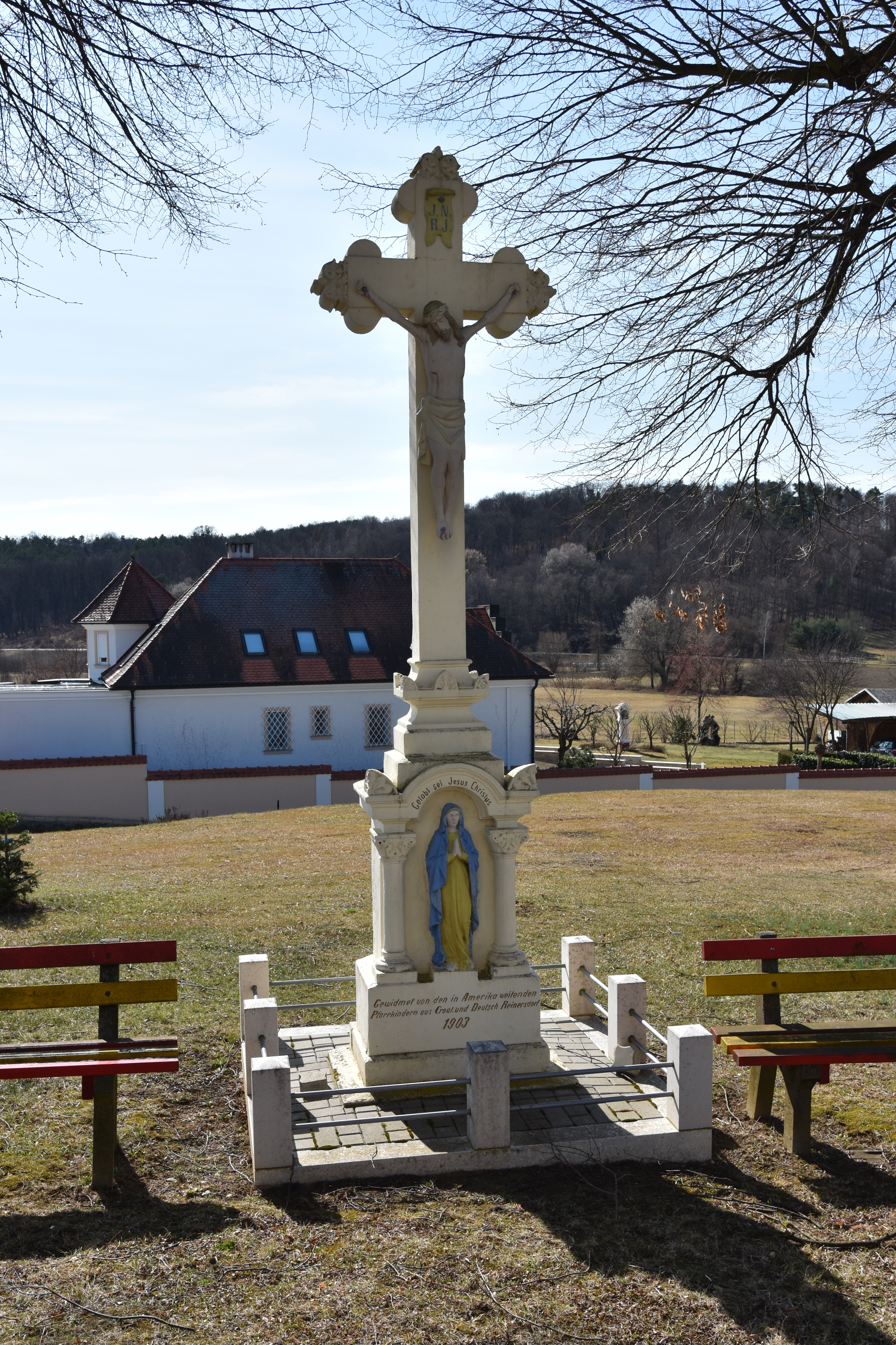 Reinersdorf (municipality Heiligenbrunn)